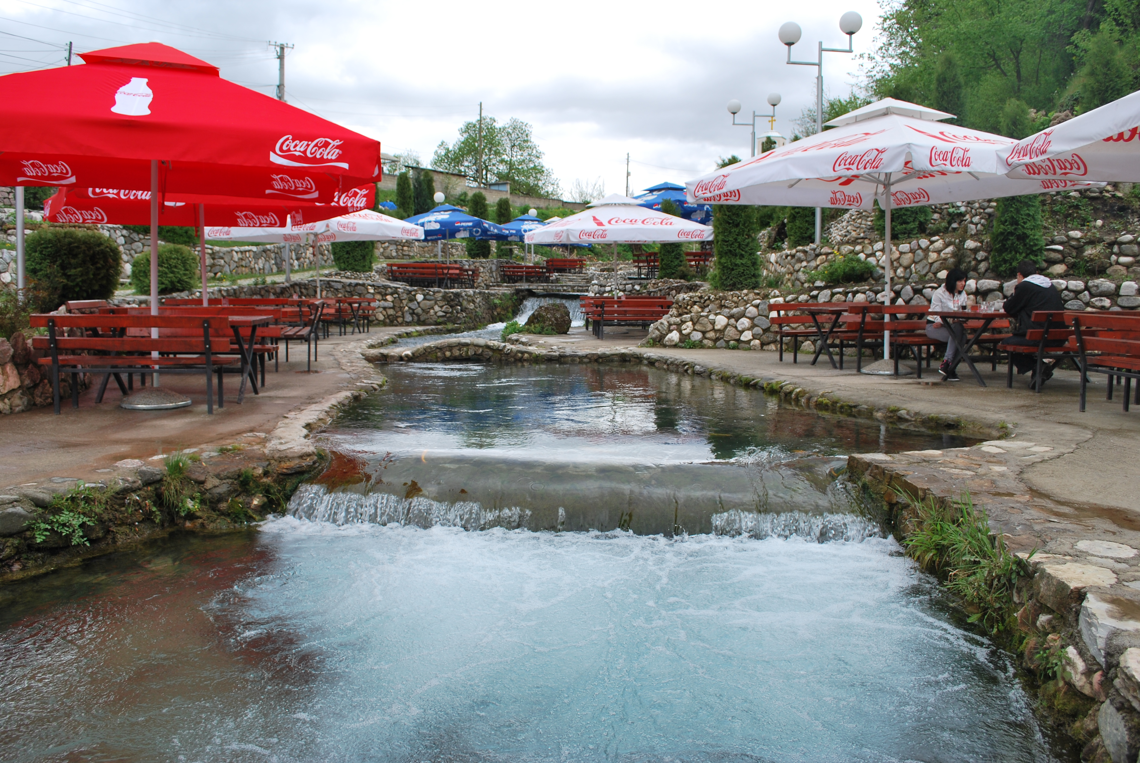 Fish restaurant Burimi in Vrutok, Macedonia